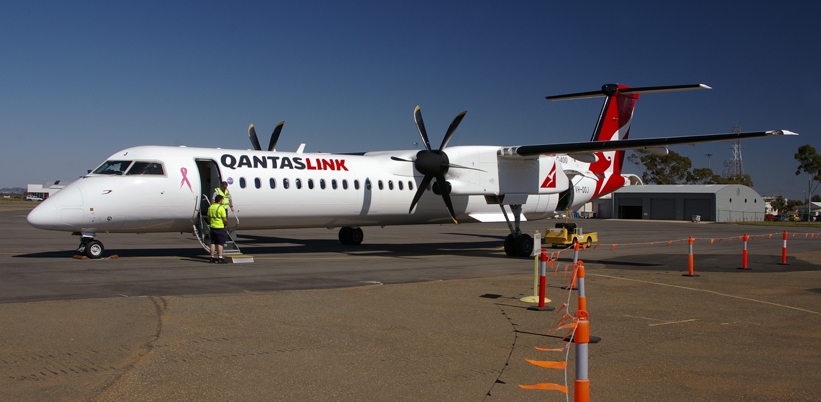 QantasLink (VH-QOJ) Bombardier Dash 8 Q400 at Wagga Wagga Airport.